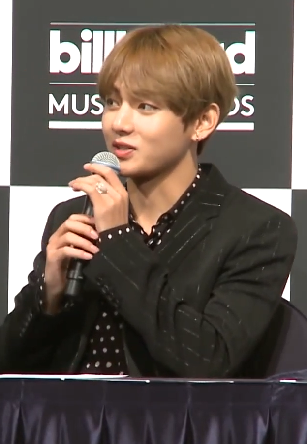 V at a press conference for the Billboard Music Awards on May 29, 2017